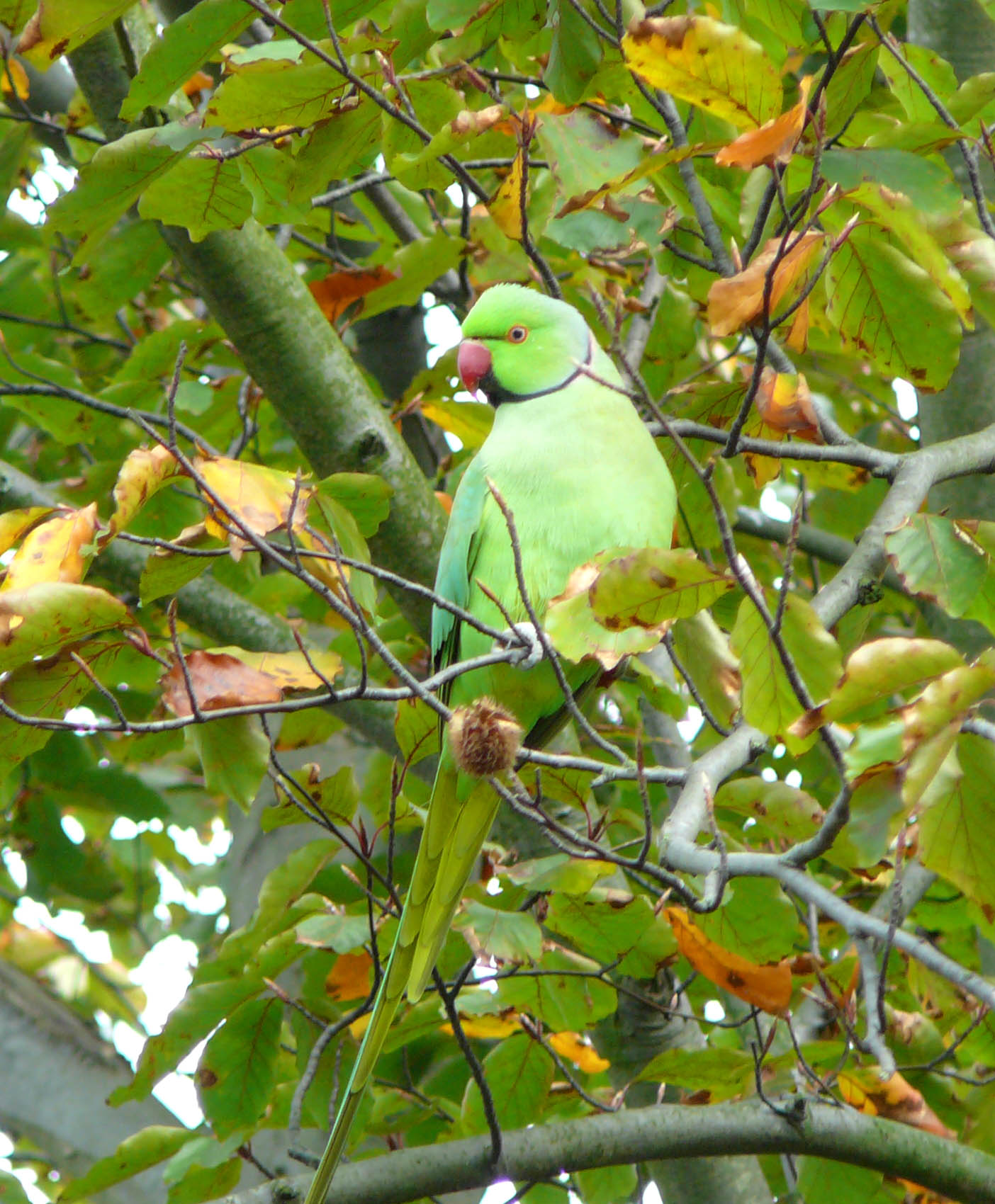 A male Rose-ringed Parakeet in Syon Park, London, England